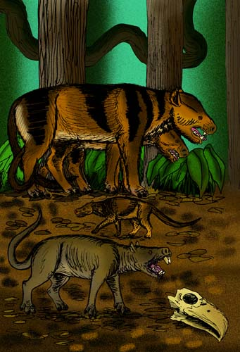 Reconstruction of the Lower Paleocene mesonychid Ankalagon saurognathus, (pair at top) in comparison with Dissacus (center) and Triisodon (bottom) of what is now New Mexico